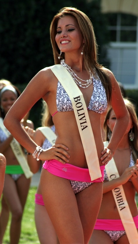 Copyright-MJL